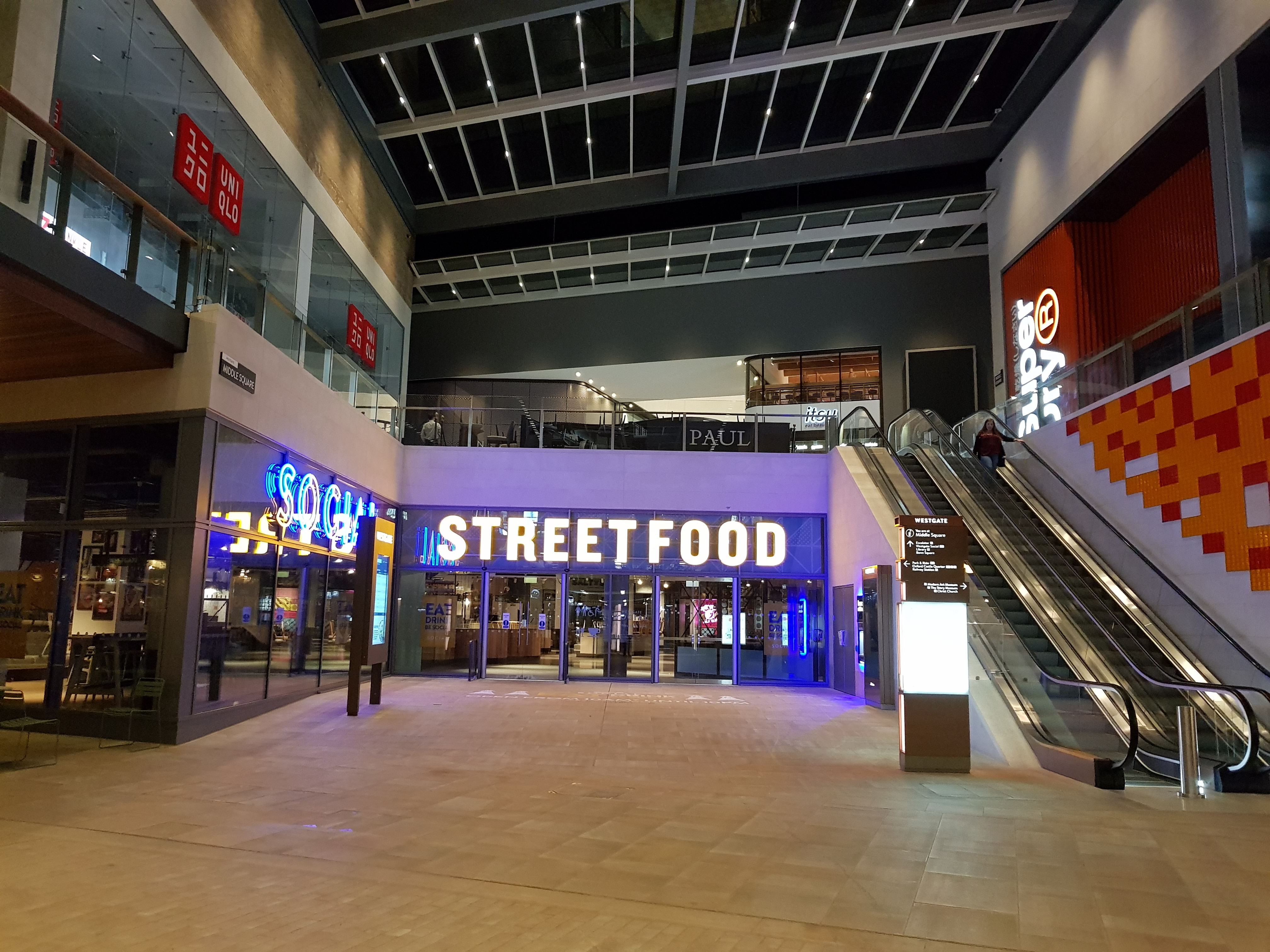 Westgate Social renamed to Social Street Food in July 2018 after a business in the Westgate Social closed down after 7 mouths since the centre open in October 2017.